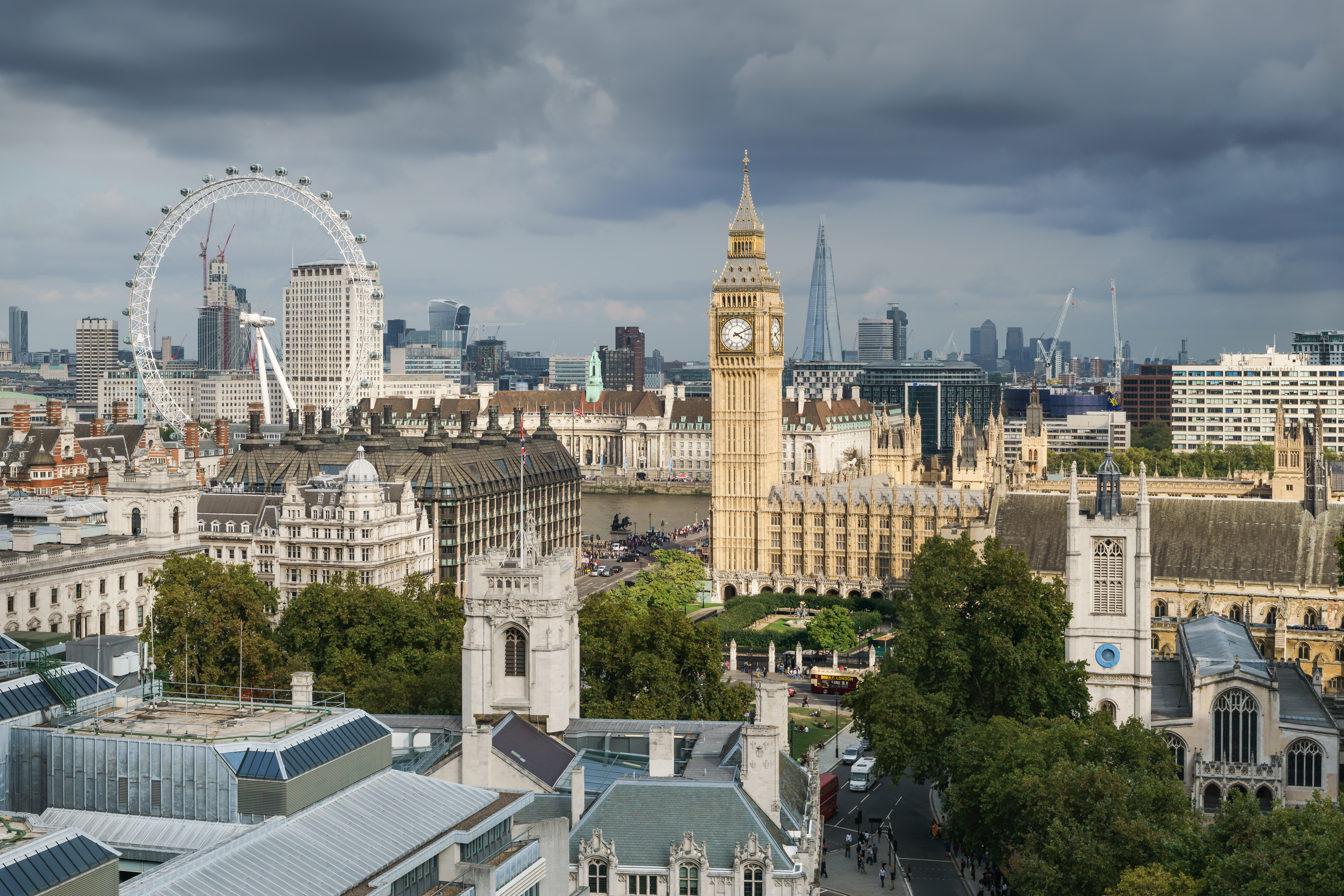 The Palace of Westminster (Houses of Parliament) from the dome on Methodist Central Hall, which is only open to the public once a year on Open House London weekend. Photographer's notes: Each of the 12 frames (2 columns, 6 rows, landscape) was taken with a Sony A77II camera and Sony 16-50 f/2.8 lens at 50mm. The exposure was F/8, 1/250s, ISO 100. The sun lit up the Houses of Parliament and London Eye for only a few minutes. Wikidata has entry Q62408 with data related to this building.